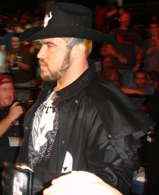 The author was contacted and agreed to release all images under the terms of the Creative Commons Attribution-ShareAlike 2.5 license. Permission is on file with the WMF.